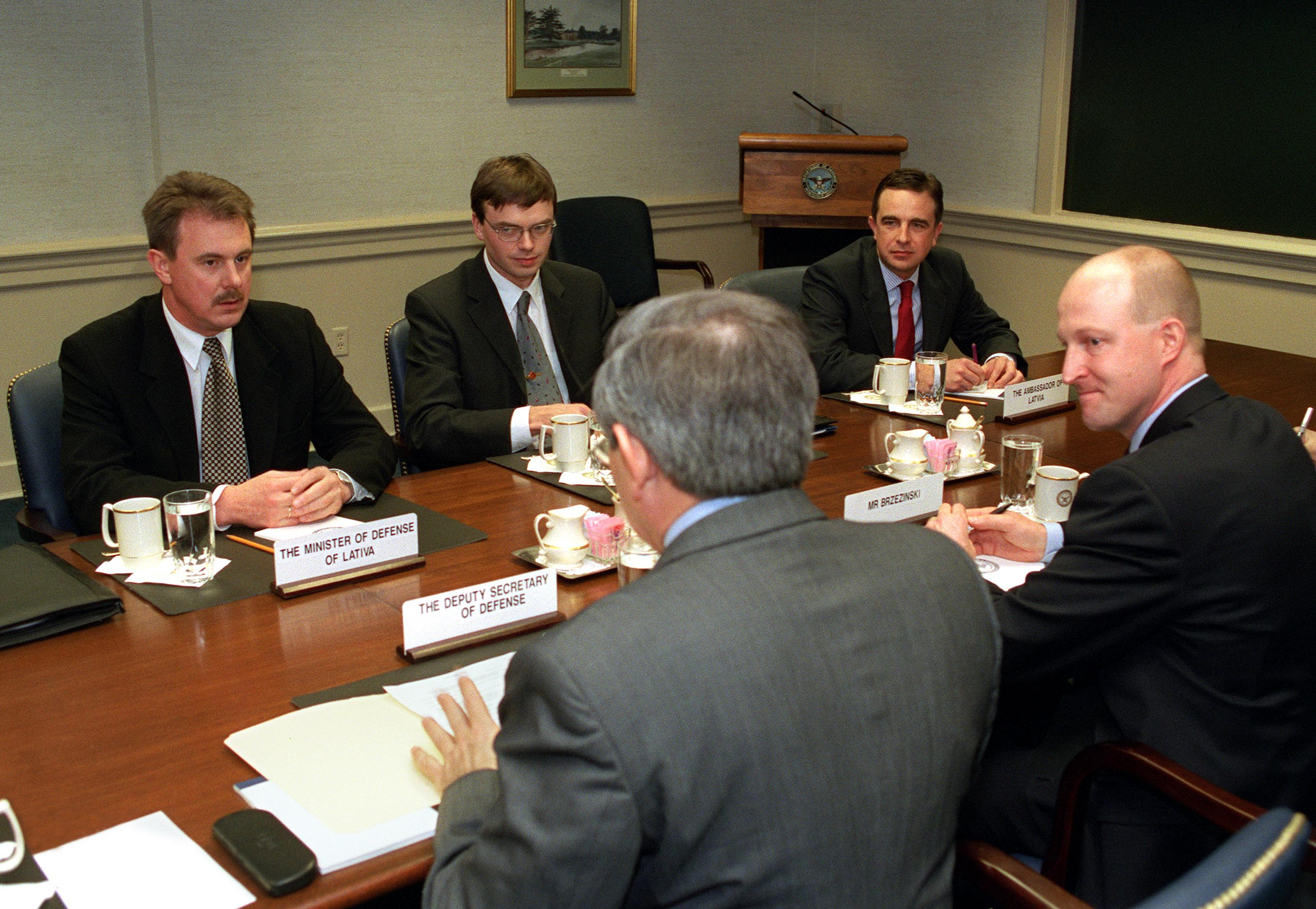 The ambassadors and defense ministers of Estonia, Latvia and Lithuania participate in regional security discussions in the Pentagon on March 14, 2002. Deputy Secretary of Defense Paul Wolfowitz (foreground) is hosting the meeting of (left to right) Girts Valdis Kristovskis, minister of defense of Latvia; Sven Mikser, minister of defense of Estonia, and Avis Ronin, the Latvian ambassador to the U.S. Seated to the right of Wolfowitz is Ian Brzezinski, deputy assistant secretary of defense for European and NATO policy.